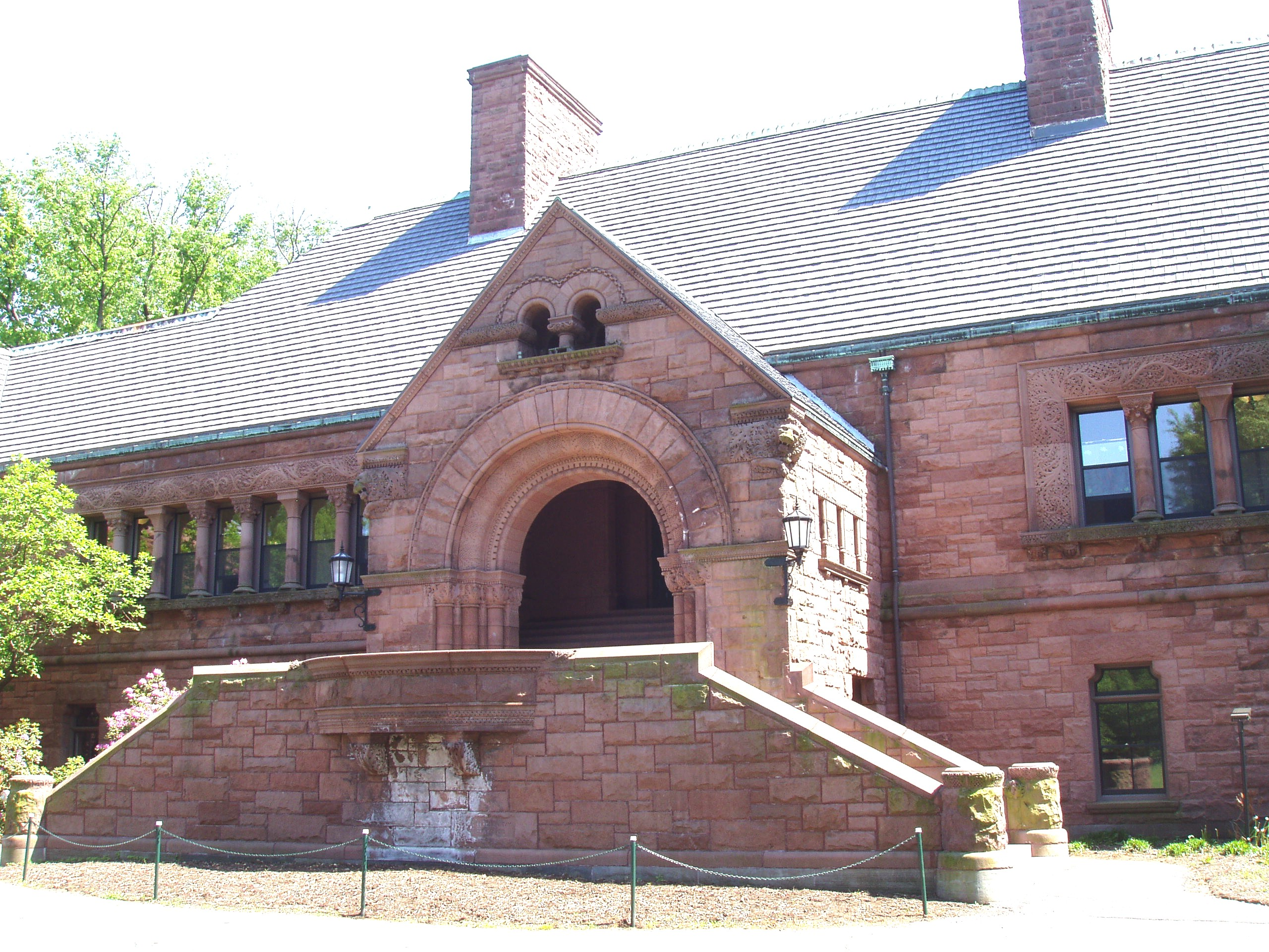 Photograph of Memorial Hall (front facade), Lawrenceville School, Lawrenceville, New Jersey, USA.